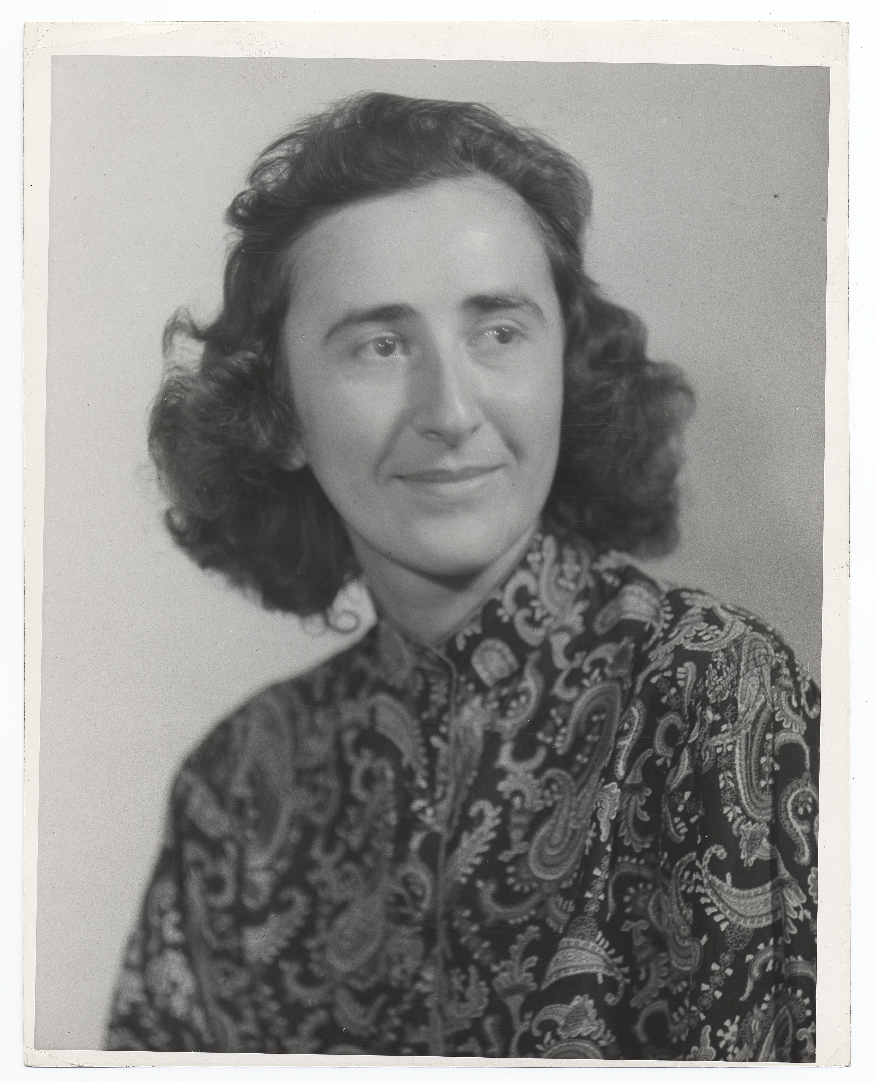 Ruth Egri photographed for the Works Progress Administration, New York, N.Y. Identification on verso (handwritten and stamped): Federal Art Project W.P.A.; Photographic Division; 13 East 37th Street; New York City Location: Mural Department; Date: 4/12/37; Negative No: P723; Photographer: Truehoff; Artist: Ruth Egri.